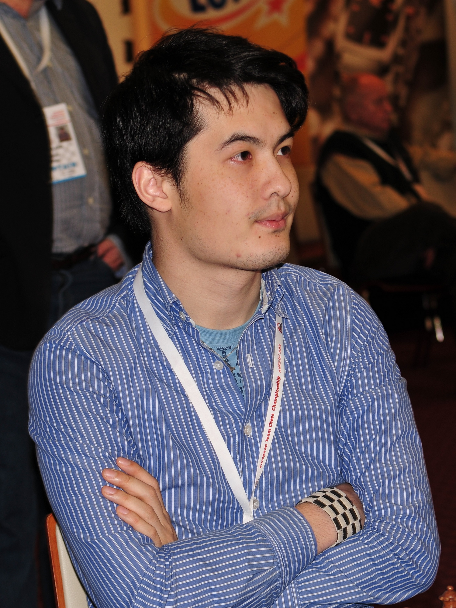 GM David Howell, European Chess Team Championship Warsaw 2013